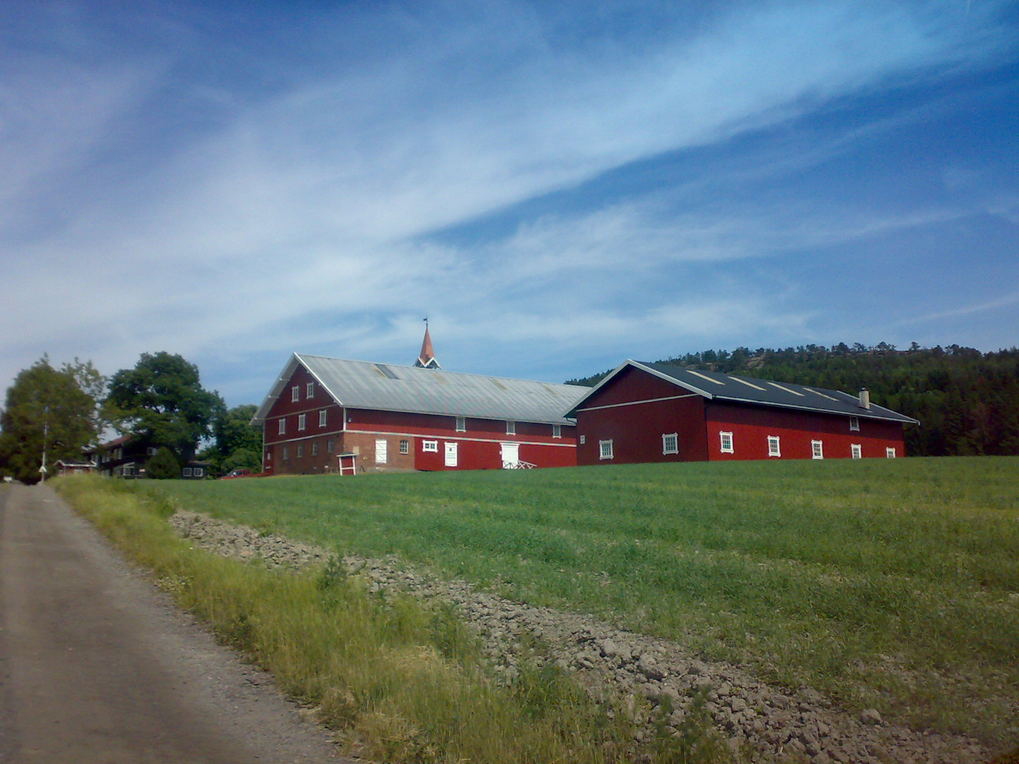 Tronstad gaard, Hurum, Norway